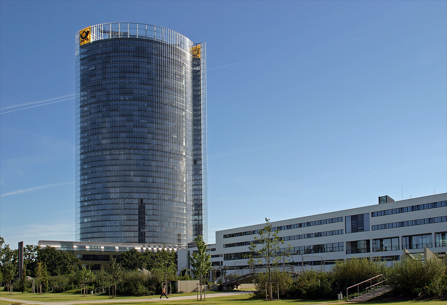 Post Tower, the corporate headquarters of the Deutsche Post World Net and on the right the Schürmann building, the headquarters of Deutsche Welle in Bonn.